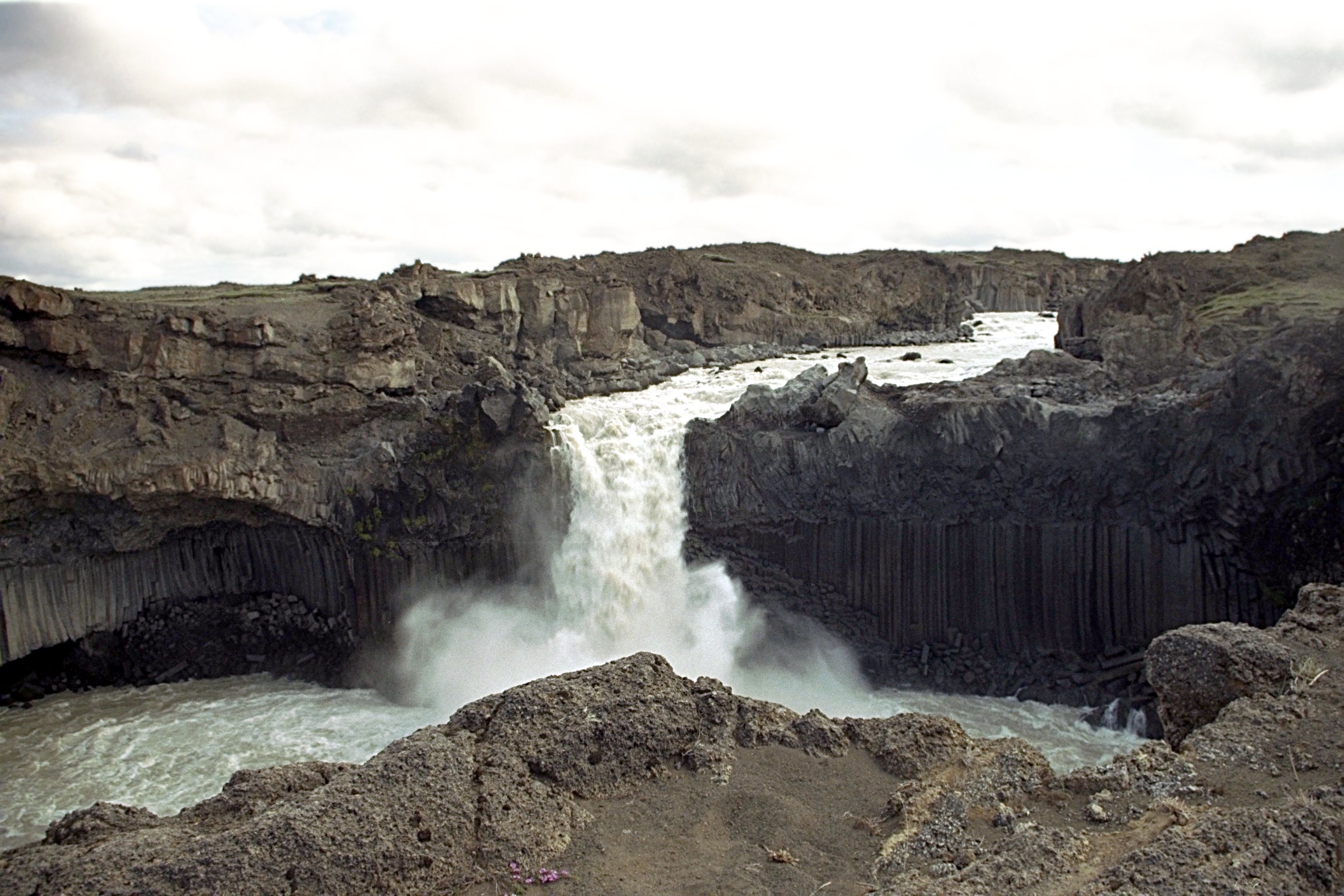 Aldeyjarfoss, Iceland; Remark: This image was shot in a hurry with quite bad film material which I do not use any more. I would not have uploaded this if there would be a better image of this place, but there wasn't any ... Photo was taken using the following technique: Film: Fuji negativ Lens: 28-80 Filter: Body: Minolta 600si Support: Image with Information in English Bild mit Informationen auf Deutsch